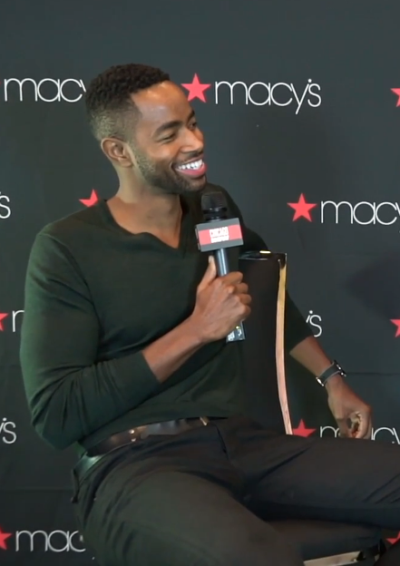 Jay Ellis in February 2017